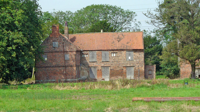 North Killingholme Manor House, near to North Killingholme, North Lincolnshire, Great Britain. Pevsner says "MANOR HOUSE. Decaying, and uncomfortably close to a vast oil refinery. On a partly moated site. The E wing probably Tudor, the relatively intact W wing c17. In the S front of the E wing three shields set in panels separated by little brick shafts. Each panel has a trefoil-cusped brick top - like the trefoil-cusping of the late c15 brick friezes in East Anglia..". This listed building is classified as being "At Risk".